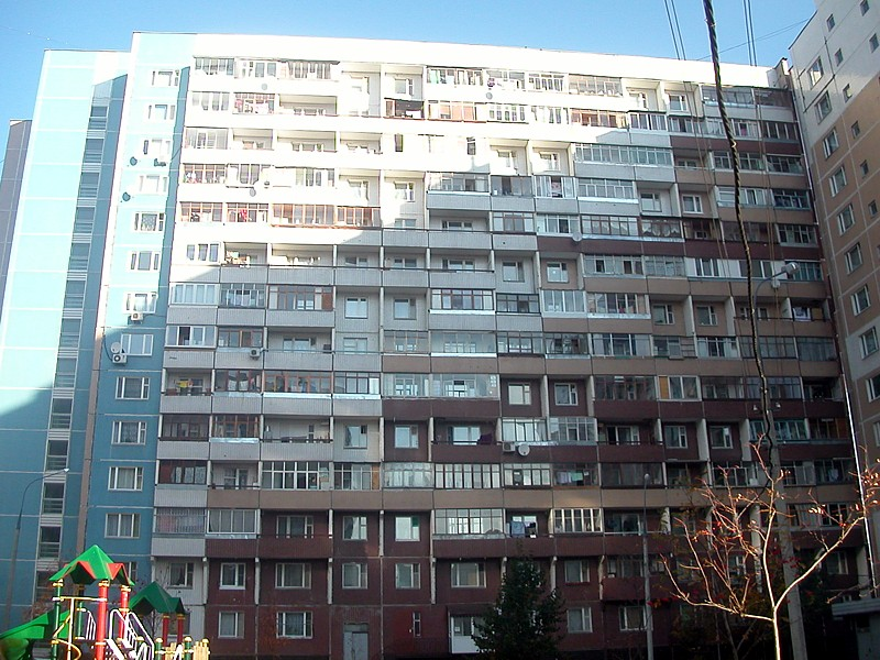 Old tower block "P-47" series, Moscow